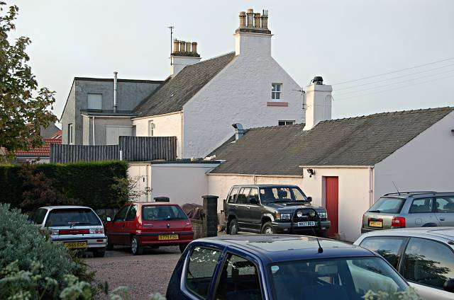 The rear of the Peat Inn, Peat Inn